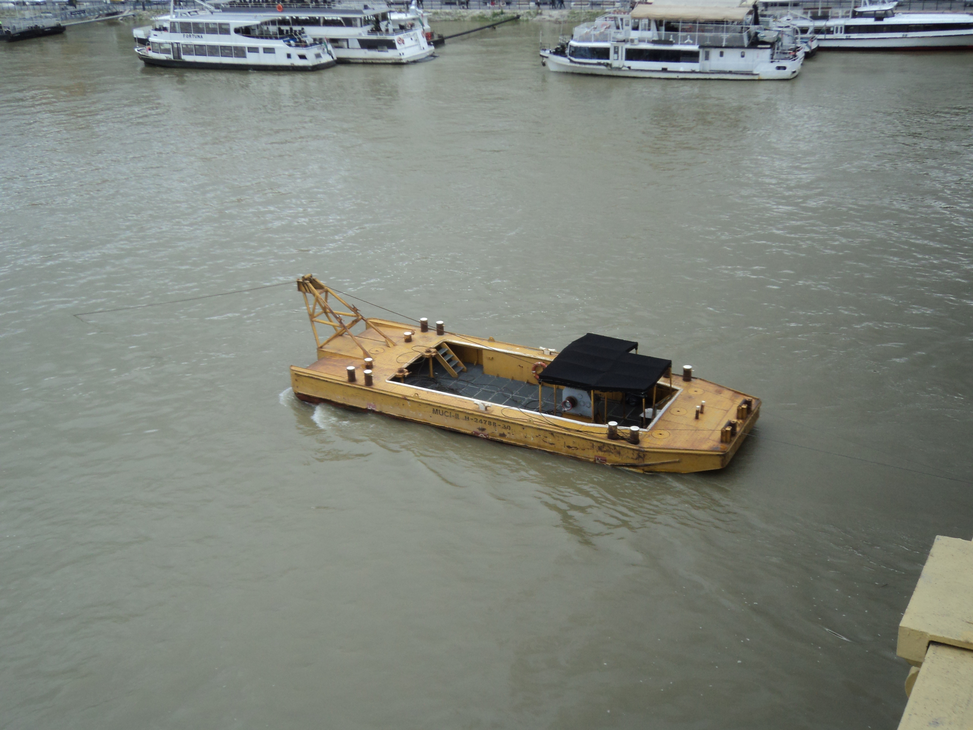 A windlass used to raise the Hableány